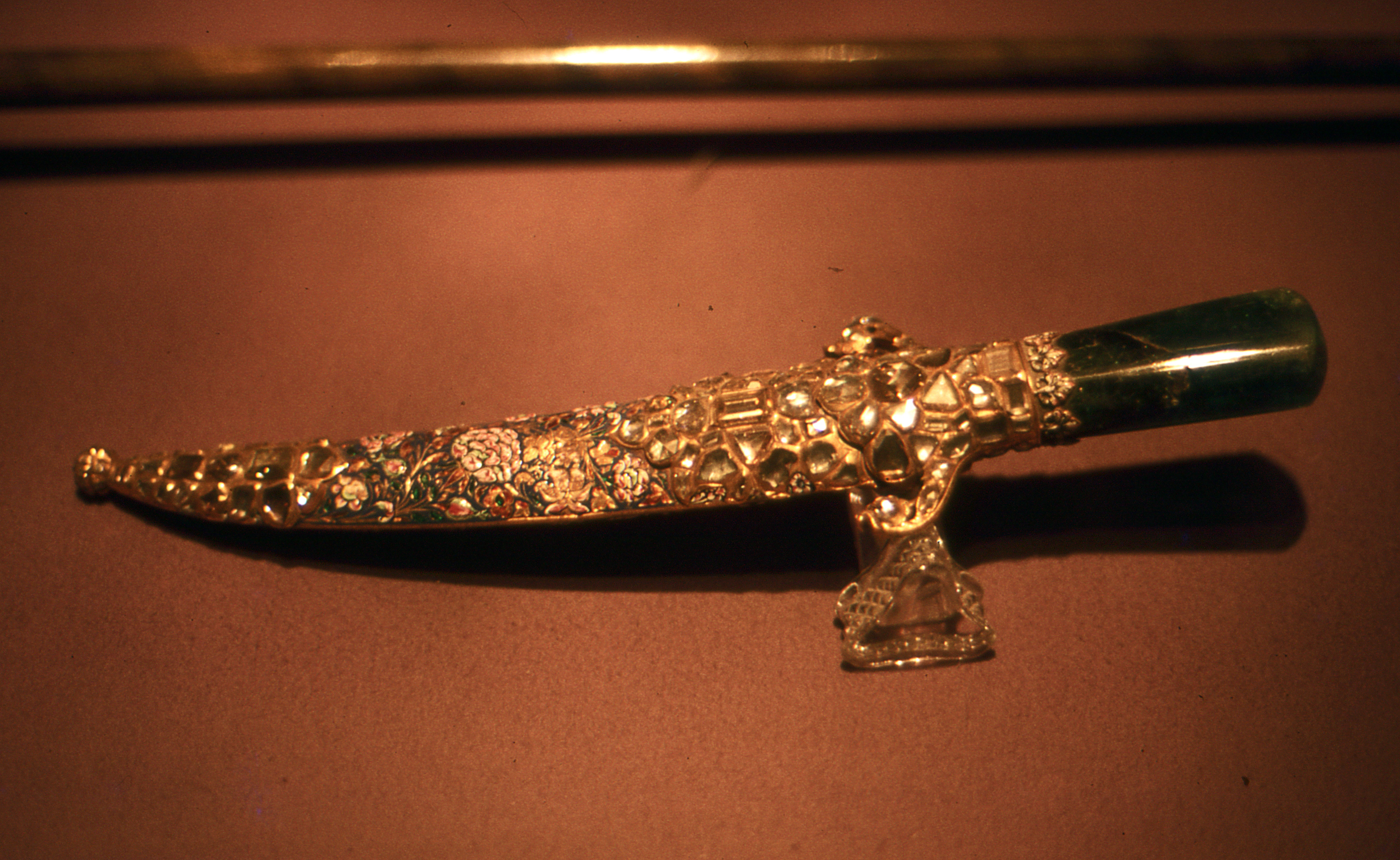 Hunting dagger.